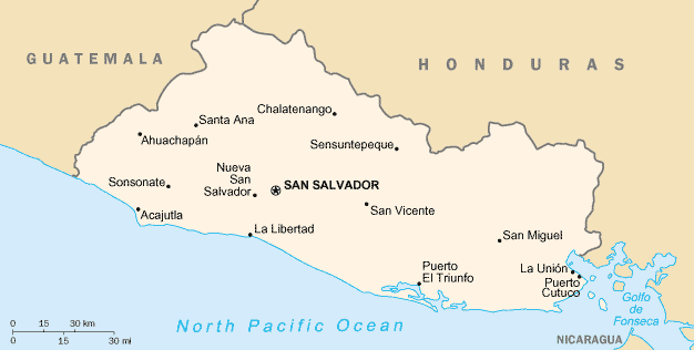 A map of El Salvador, showing major cities.